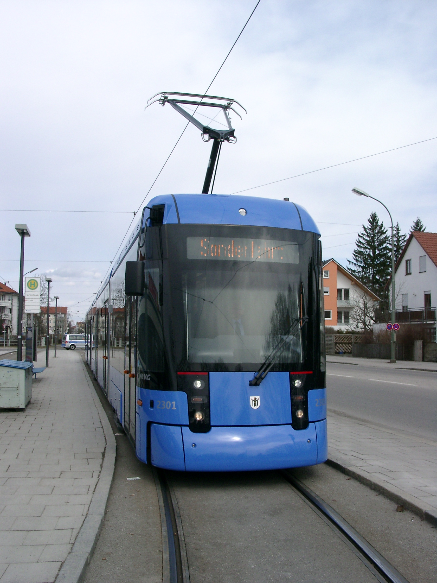 Tramway Munich S 1.4